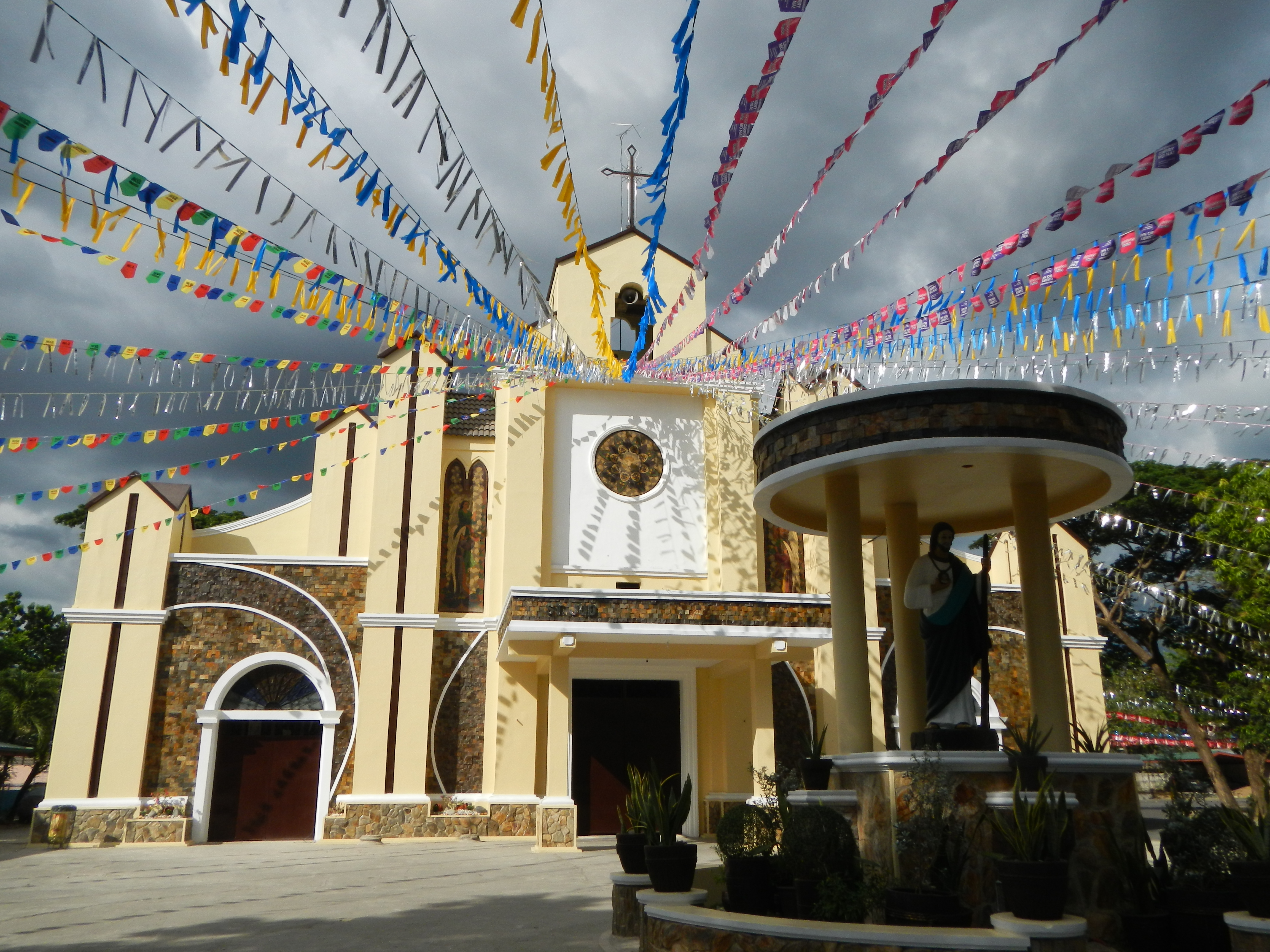 St. Jude Thaddeus Parish Church, Pozorrubio, Pangasinan[1] Roman Catholic Archdiocese of Lingayen-Dagupan[2]